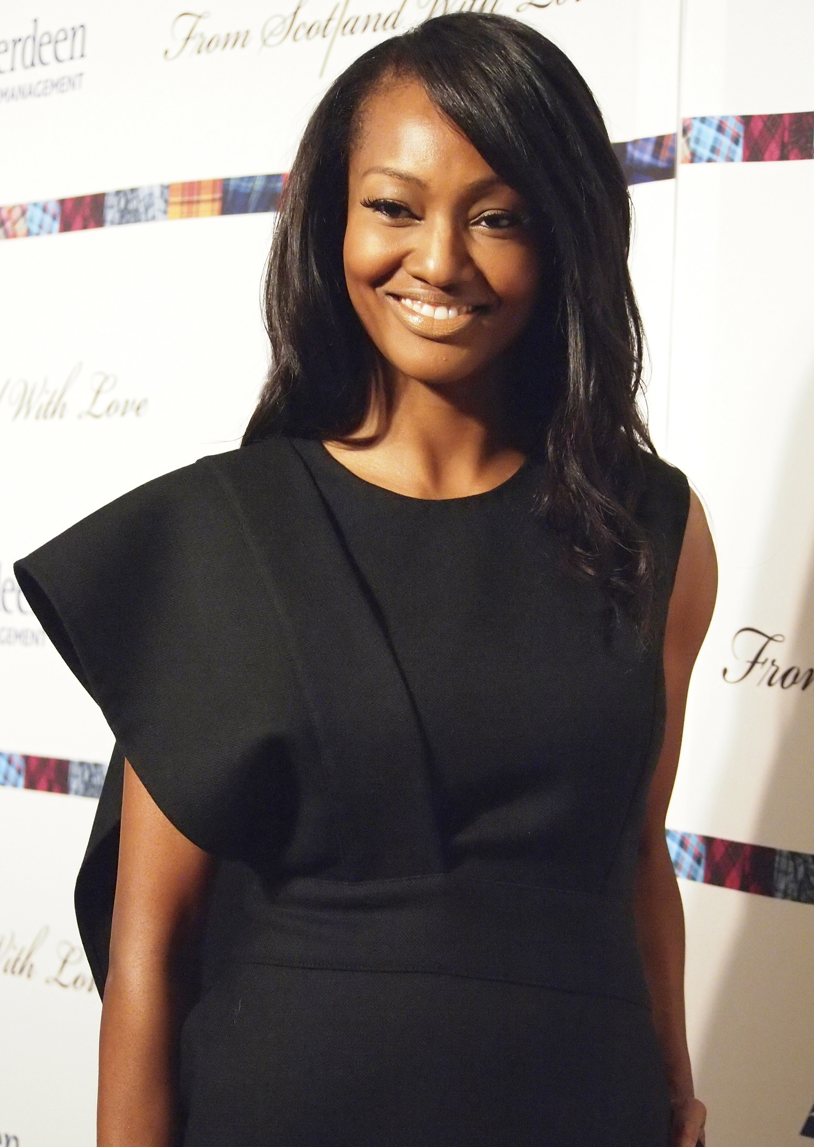 Nichole Galicia at From Scotland With Love Fashion Show in New York City, April 2013 in TiA CiBANi.